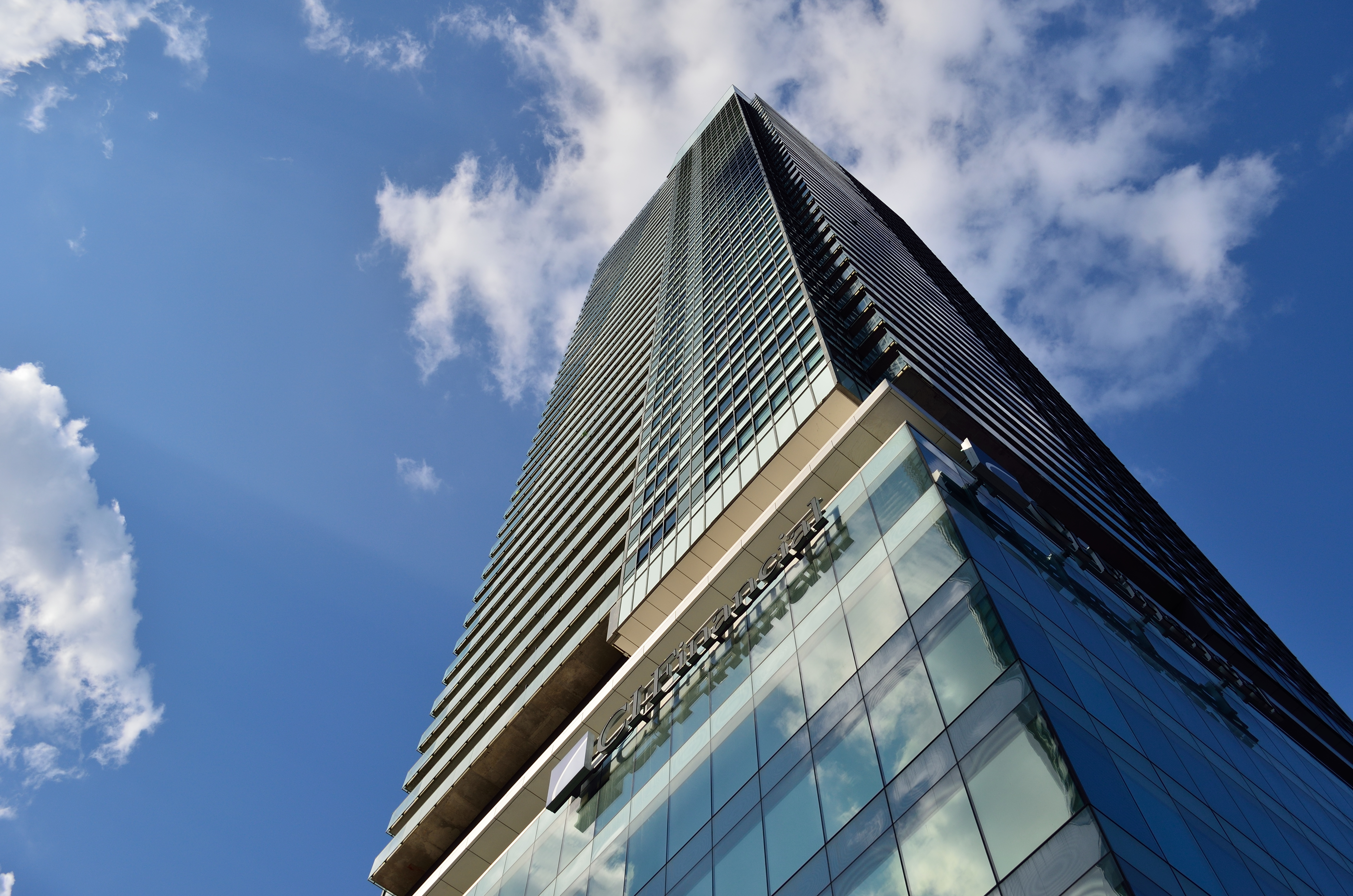 Maple Leaf Square & CI Financial Office